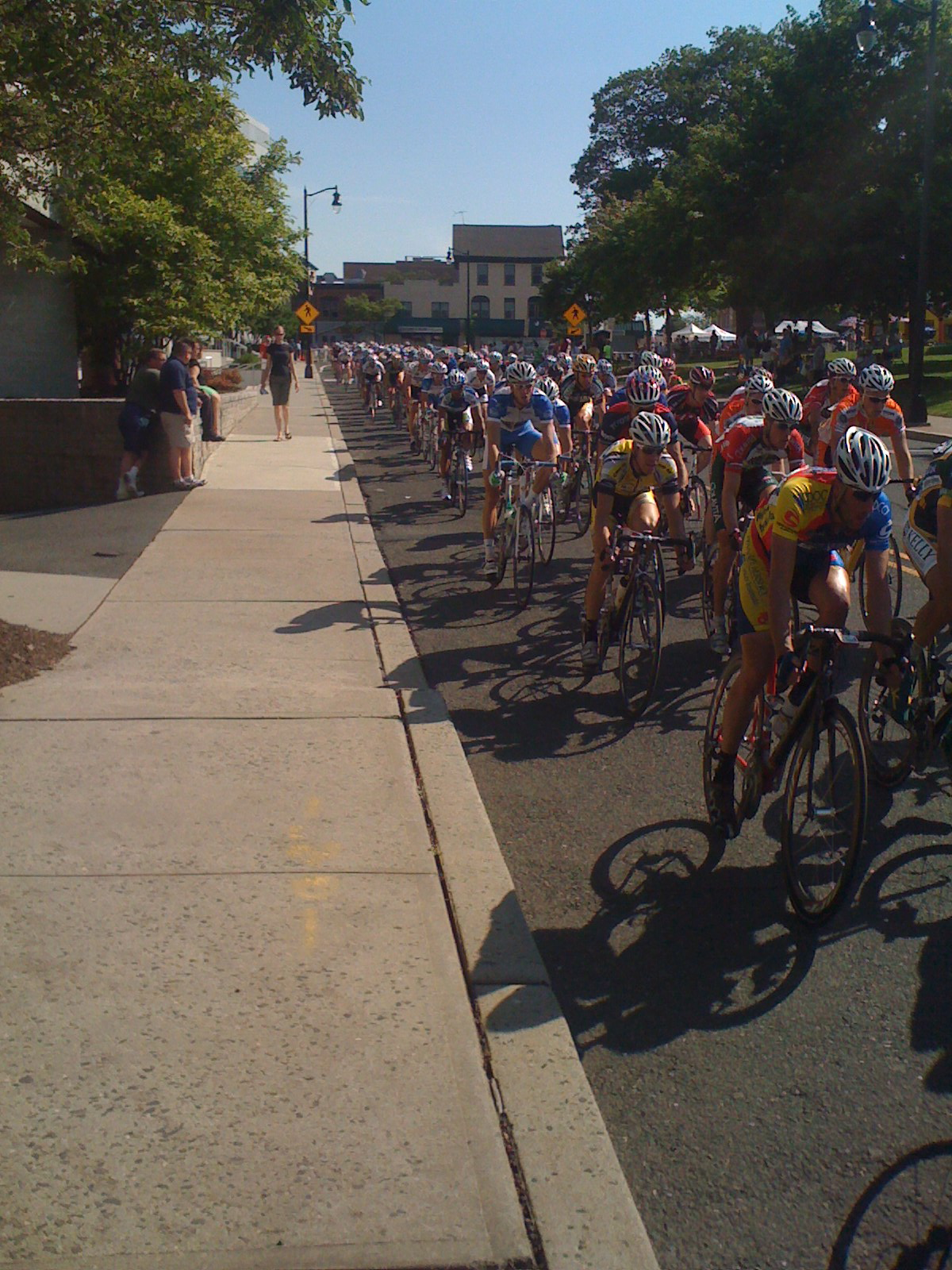 Picture of The Tour of Somerville